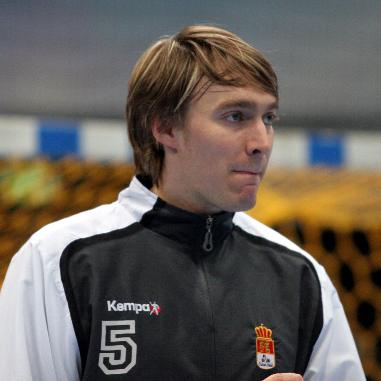 Jonas Källmann, handball player of BM Ciudad Real (Spain), in the Kölnarena prior the champions league game VfL Gummersbach vers. BM Ciudad Real on February 20th, 2008